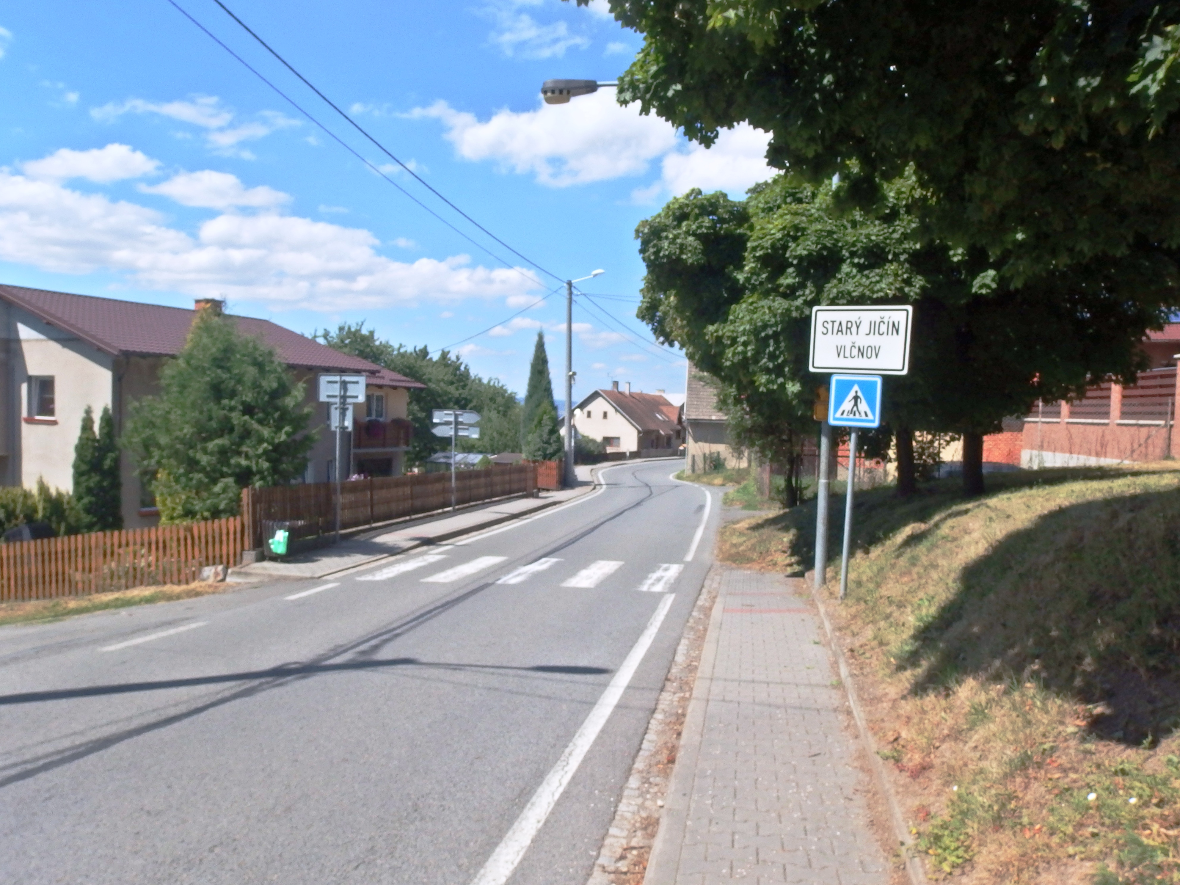 Starý Jičín, Nový Jičín District, Czech Republic, part Vlčnov.